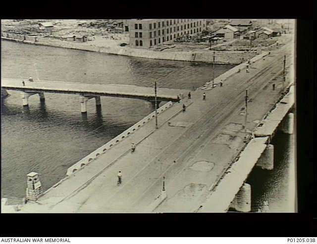 Elevated view of a bridge and buildings along the river banks of the city extensively damaged by the dropping of the atomic bomb on 1945-08-06.